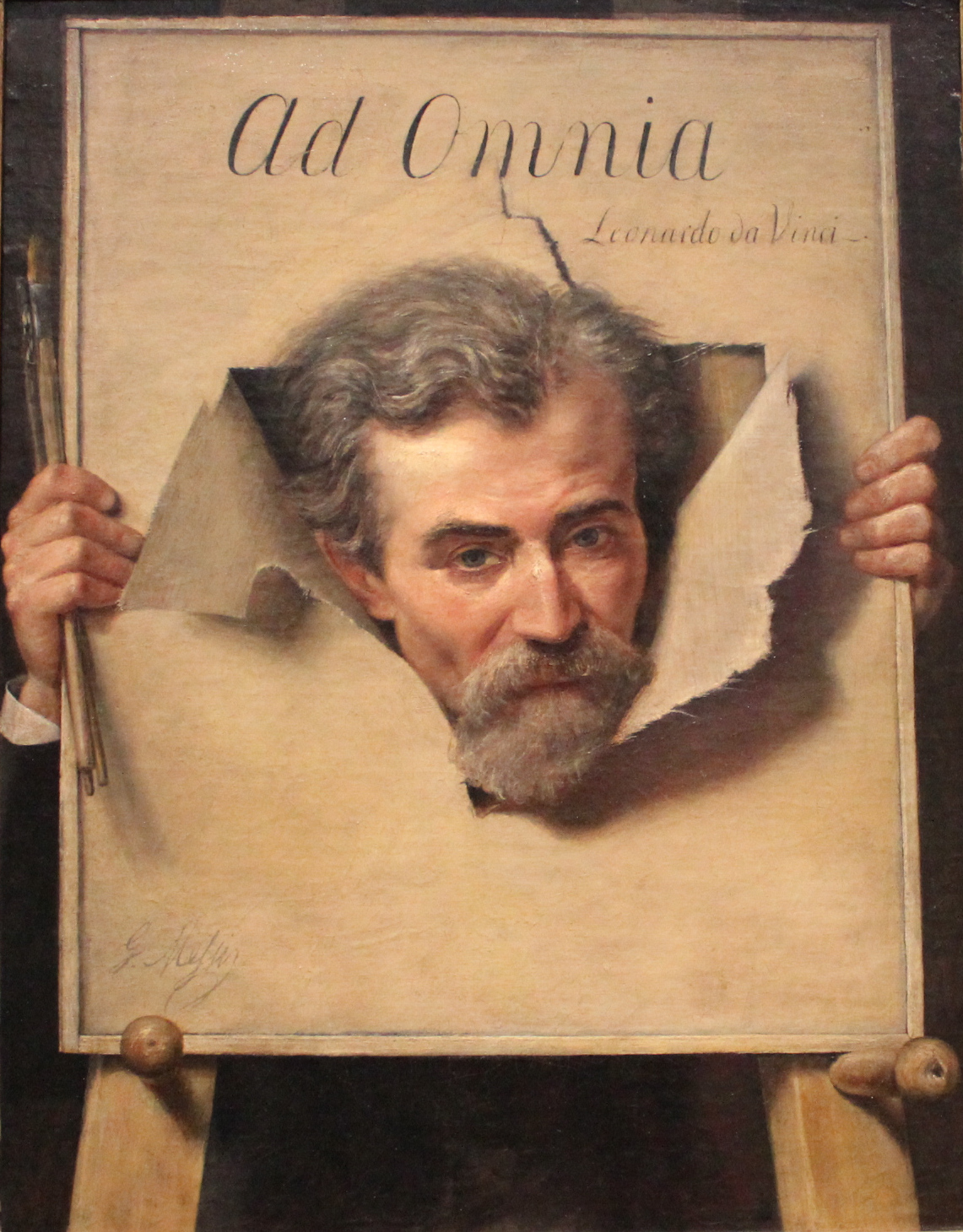 "Portrait of a Man" (c. 1883) by Georges Méliès. Held by the Wallraf Museum in Cologne, Germany.